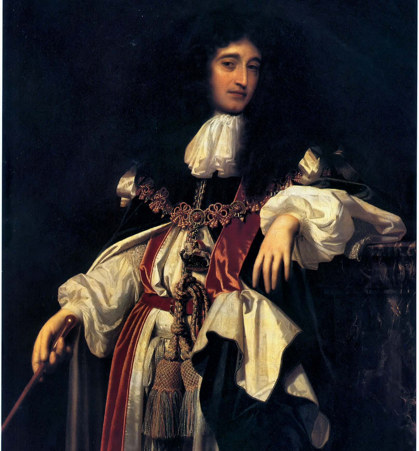 Prince Rupert of the Rhine wearing the Order of the Garter